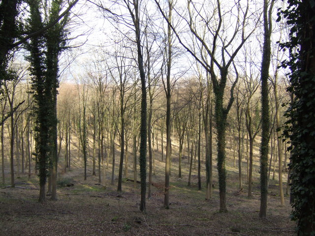 Beech woodland The southern section of the Head Down Plantation.